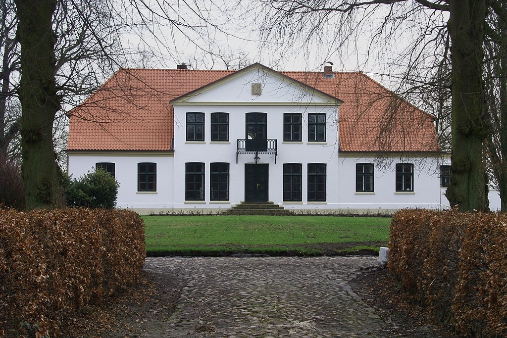 Manor-house of Seestermuehe in Schleswig-Holstein, Germany